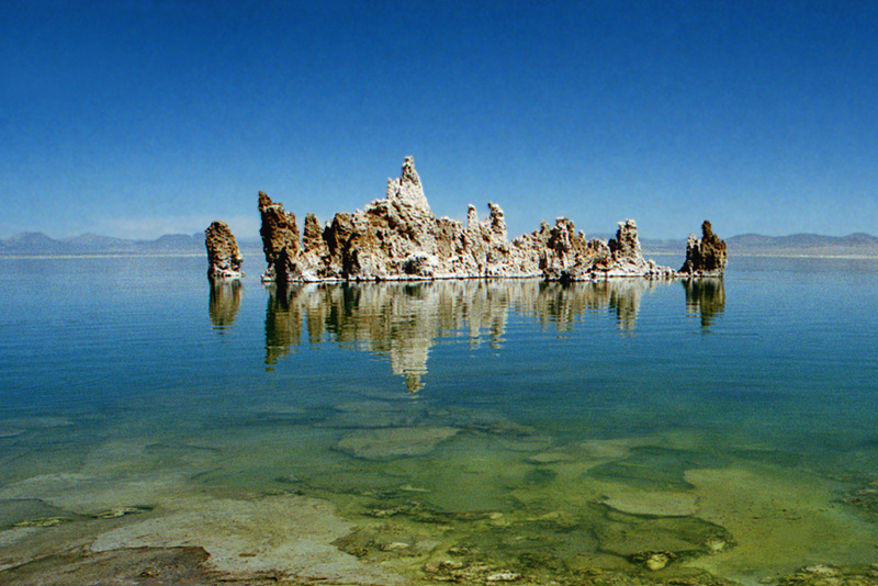 Mono Lake, California, USA